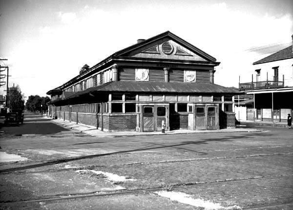 Exterior view of St. Roch Market from St. Claude Avenue New Orleans; 1937 WPA photo. Original caption: "The St. Roch Market (St. Roch and St. Claude Avenues) before WPA repairs and modernization. This was one of four markets overhauled by WPA." Exterior.